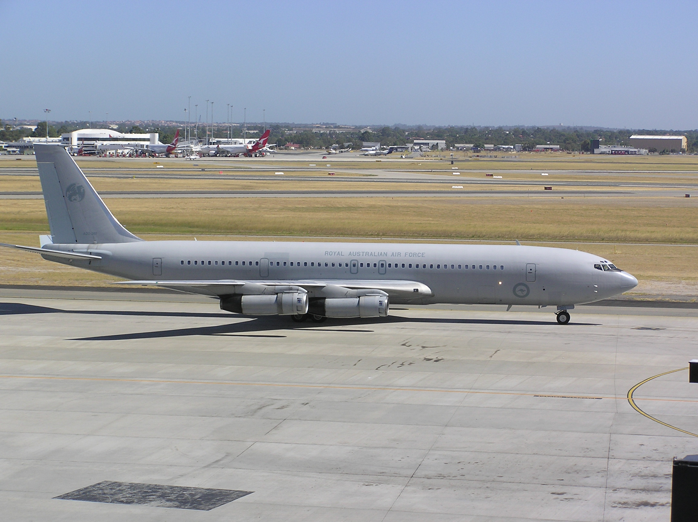 Royal Australian Air Force Boeing 707-368C (code A20-261) at Perth international airport.